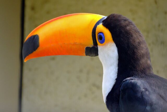 A Toco Toucan.